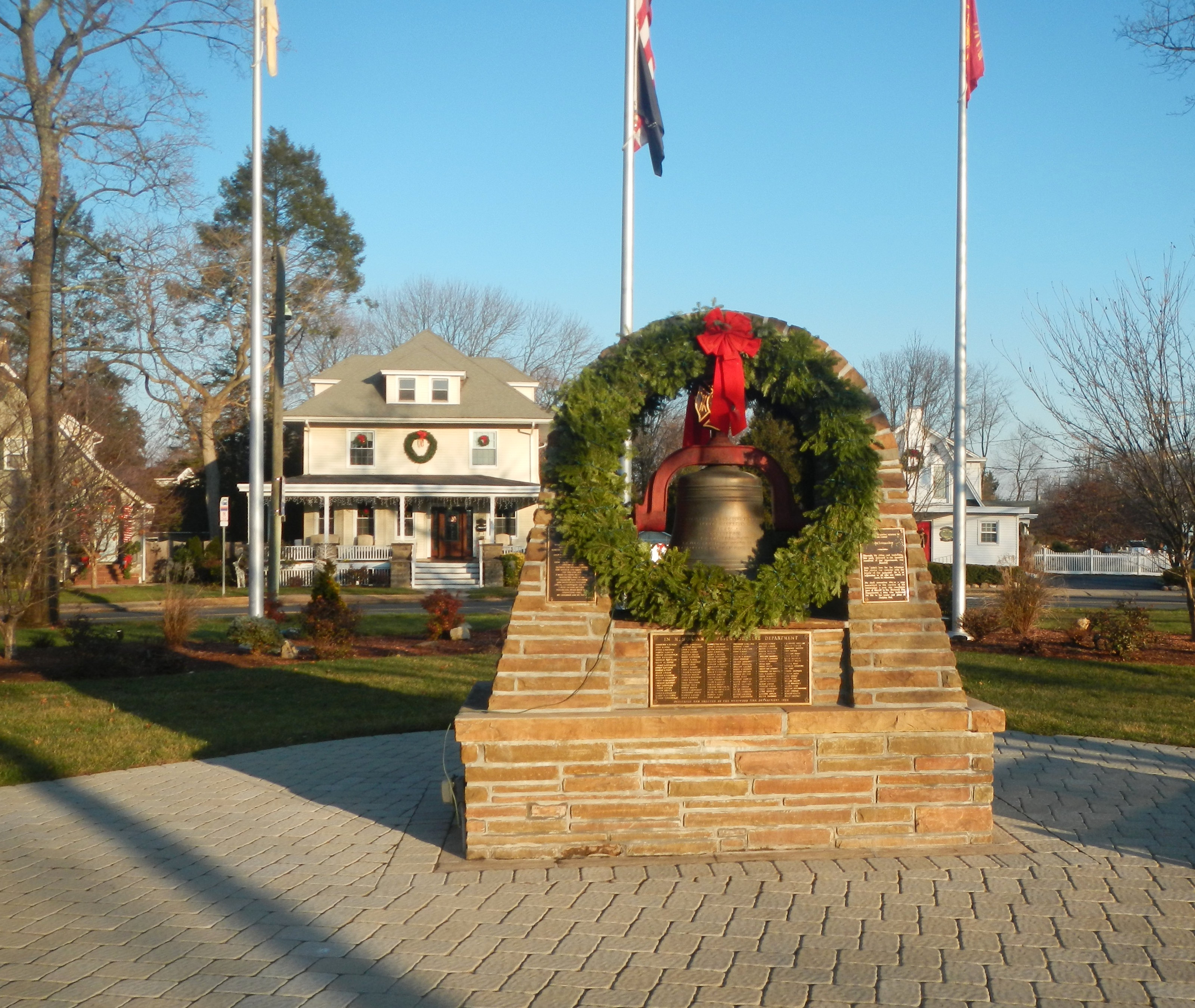 Looking east towards Park Place at Five Corners park on a sunny late afternoon.